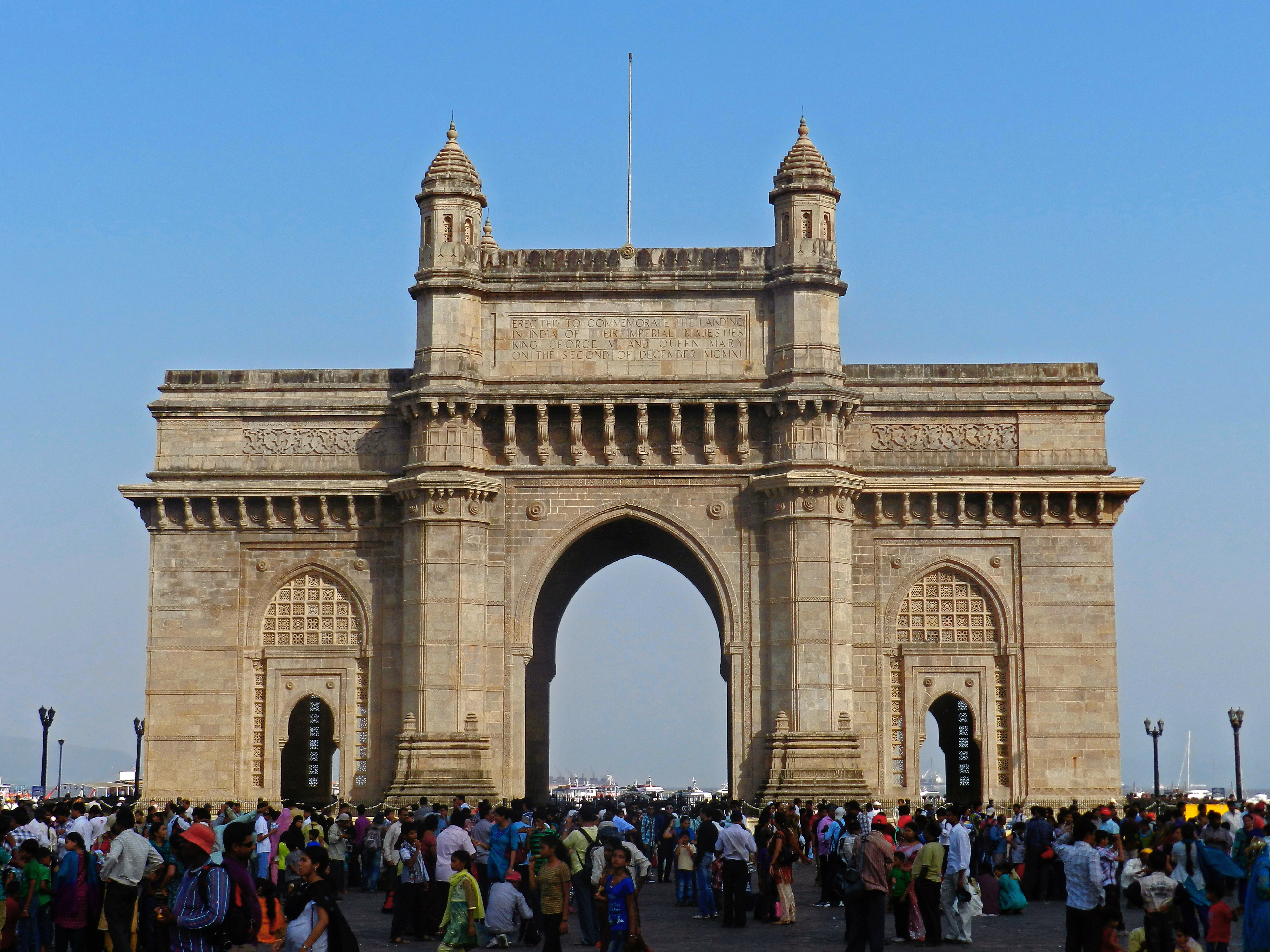 Gateway of India This structure was errected to Commemorate the landing in India of their (Then) Imperial Majesties King George V, and Queen Mary on the Second of December MCMXI The Taj Hotel is next to it, in Mumbai.